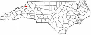 Category:North Carolina Dot Maps